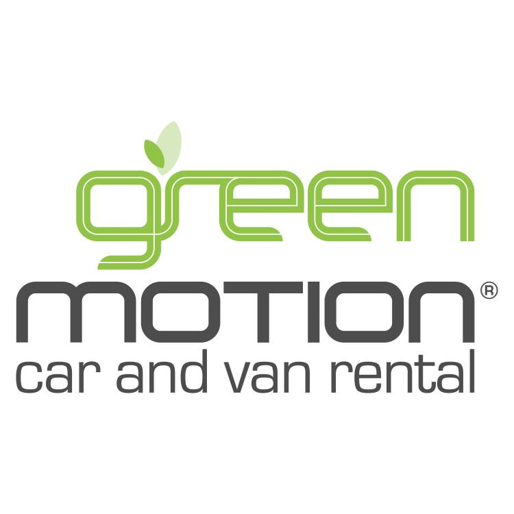 Green Motion International Car and Van Rental Logo